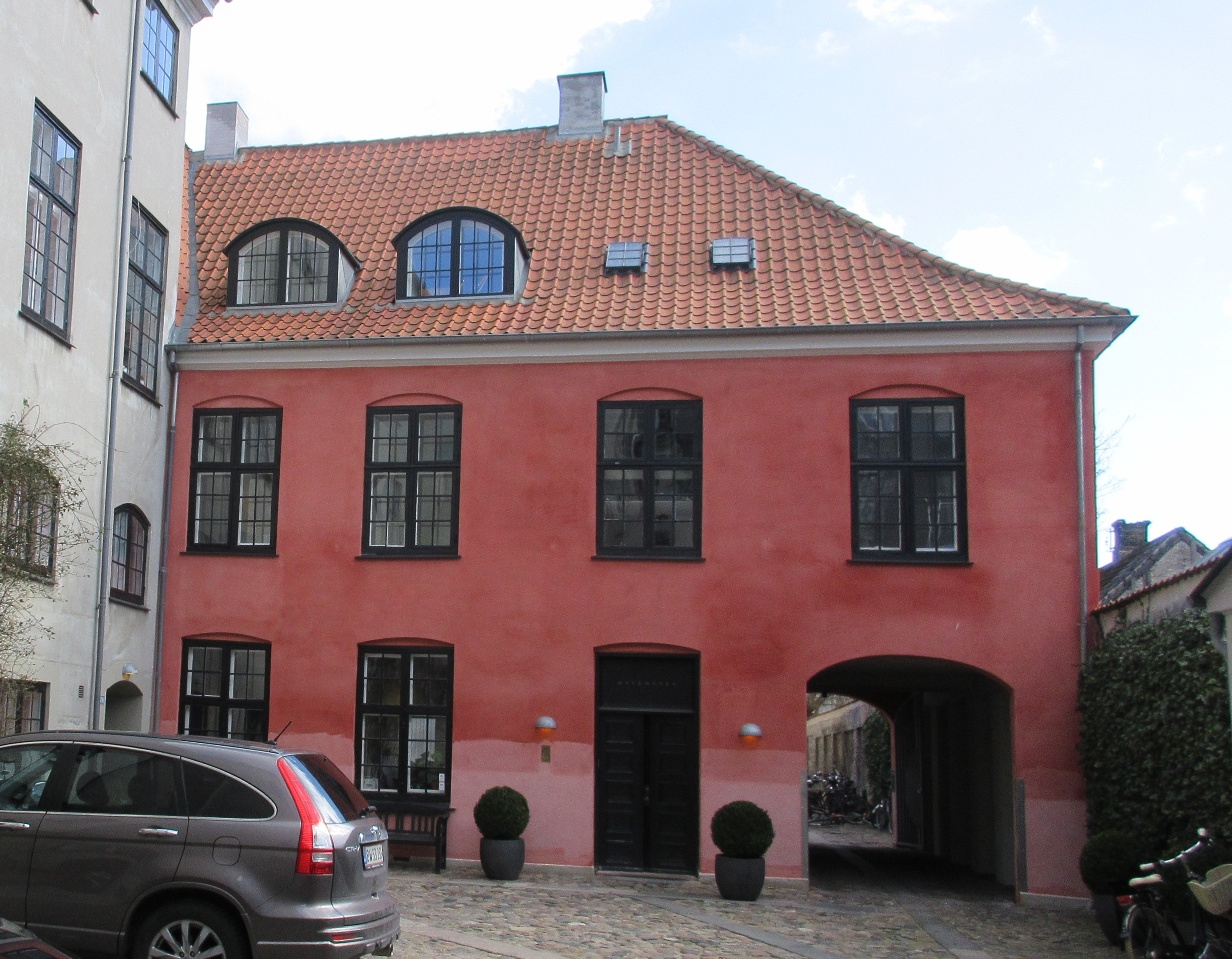 The building in the courtyard to the rear of Løves Gård at Bredgade 76 in Copenhagen, Denmark